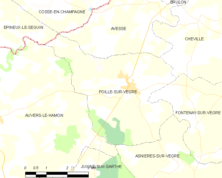 Map of French municipality